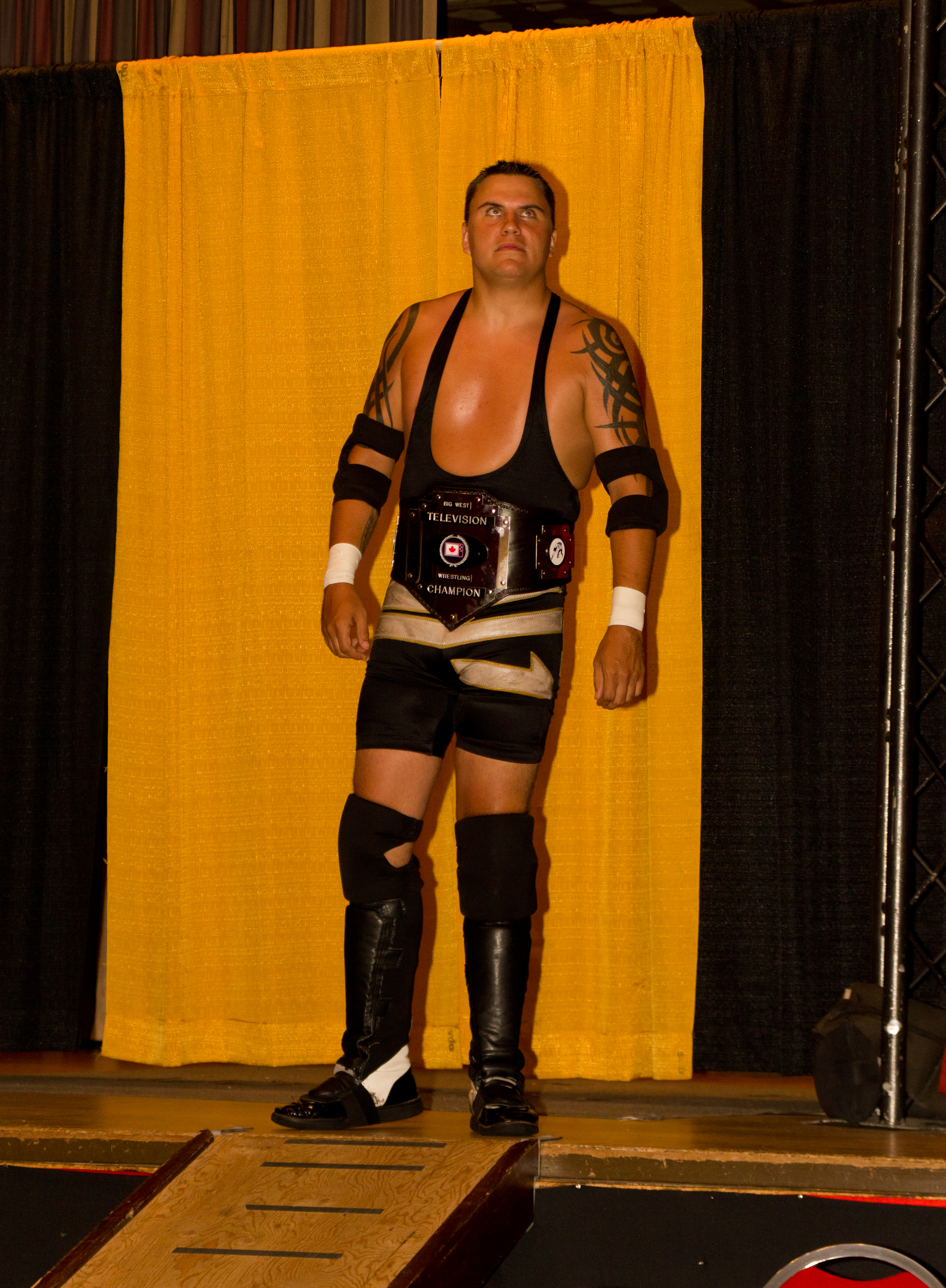 Wrestler K.C. Andrews with the Big West Wrestling Television championship belt